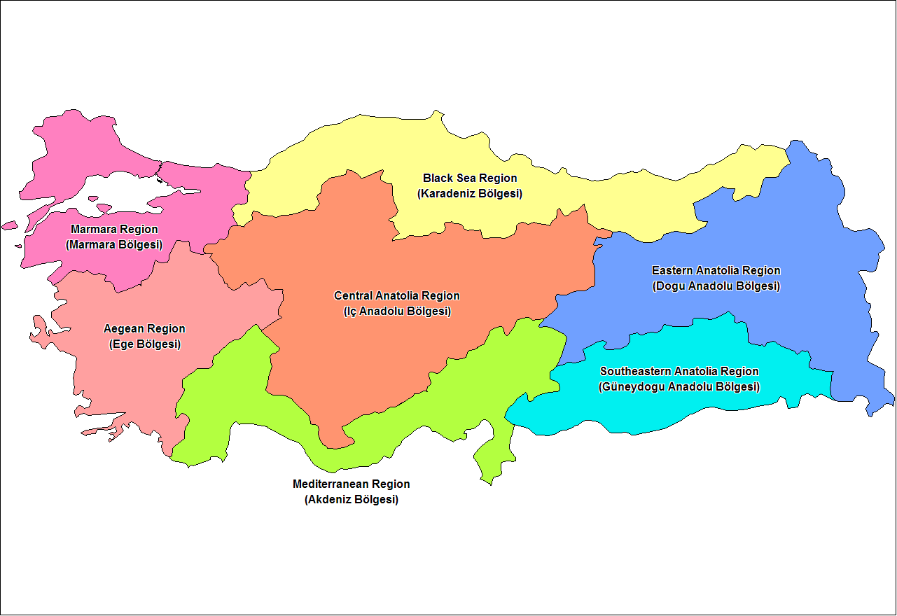 Map of the census-defined regions of Turkey. Created by Rarelibra 16:13, 17 November 2006 (UTC) for public domain use, using MapInfo Professional v8.5 and various mapping resources.